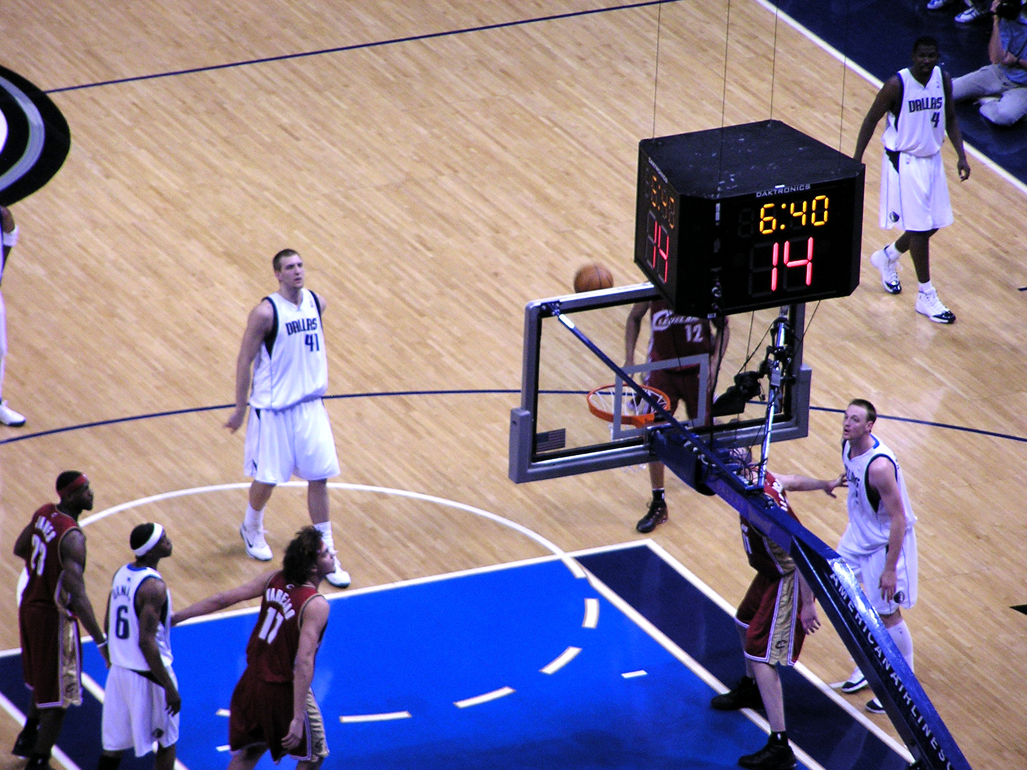 Dirk Nowitzki (Dallas Mavericks) at the free-throw line against Cleveland Cavaliers